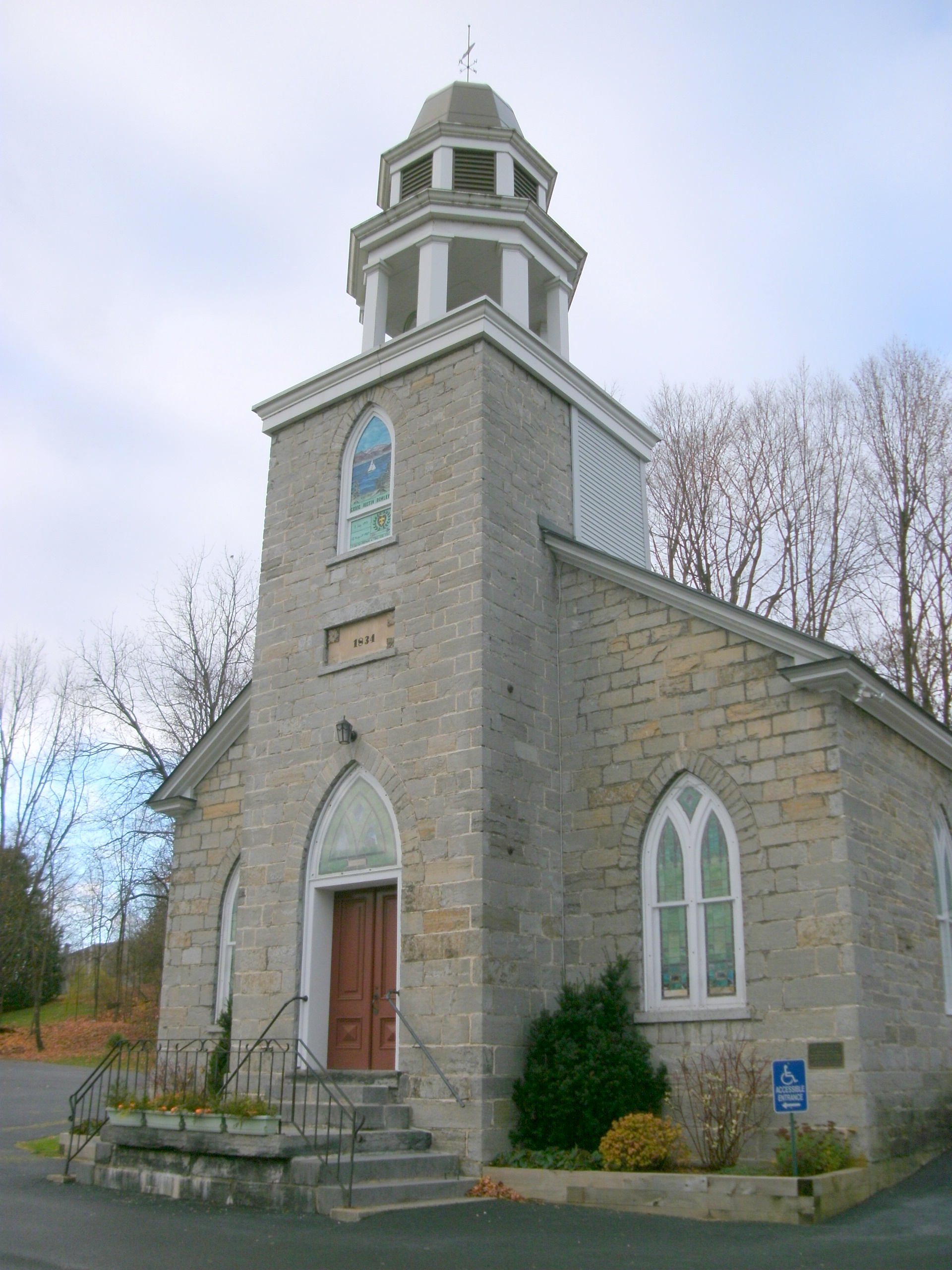 GE DIGITAL CAMERA Willsboro, New York